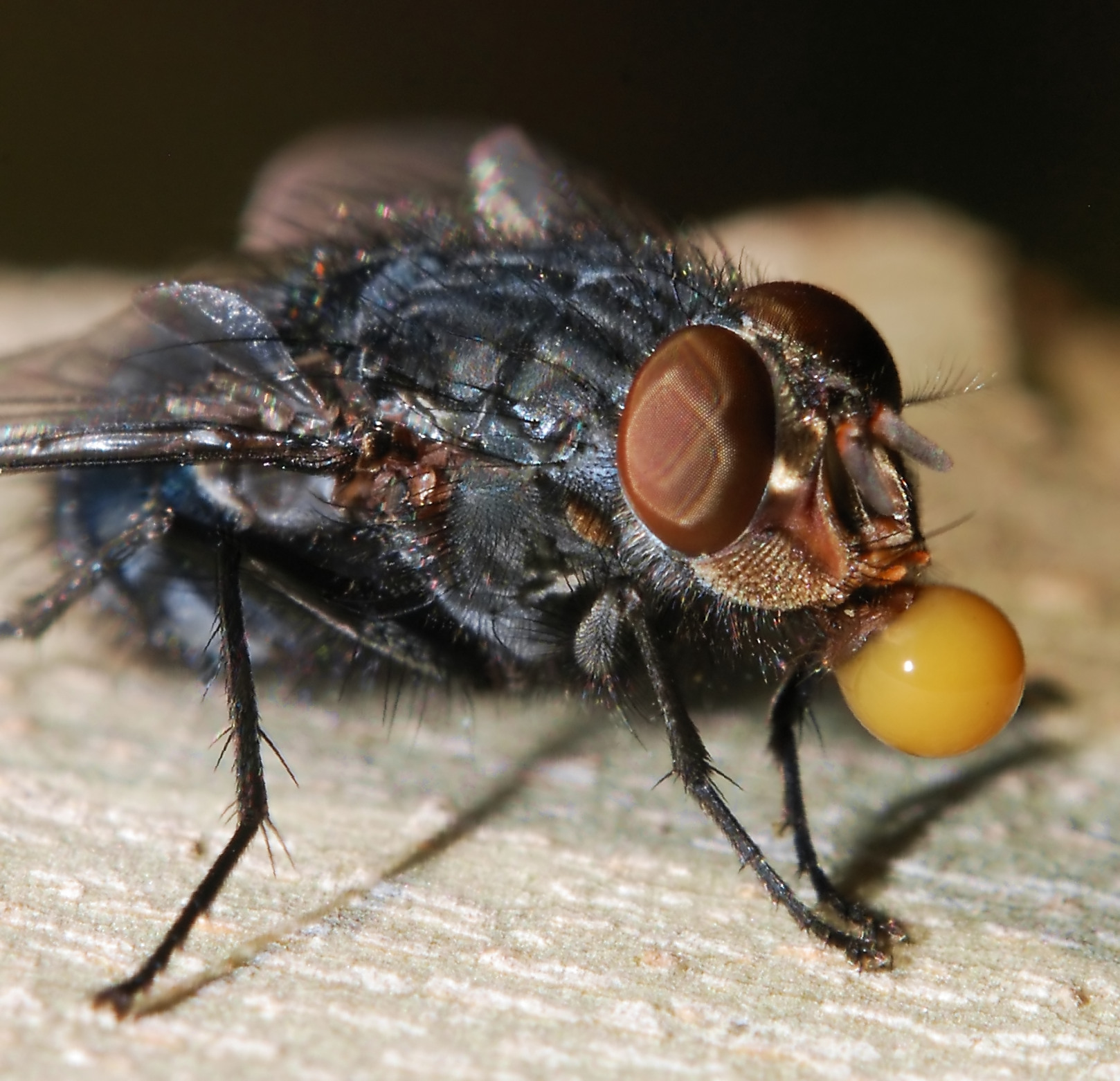 A Blow Fly making bubbles (Calliphora vicina) Camera: Nikon D80 with Tokina 100mm macro and extension ring Exposure: manual exposure, f/18, 1/60, ISO 200